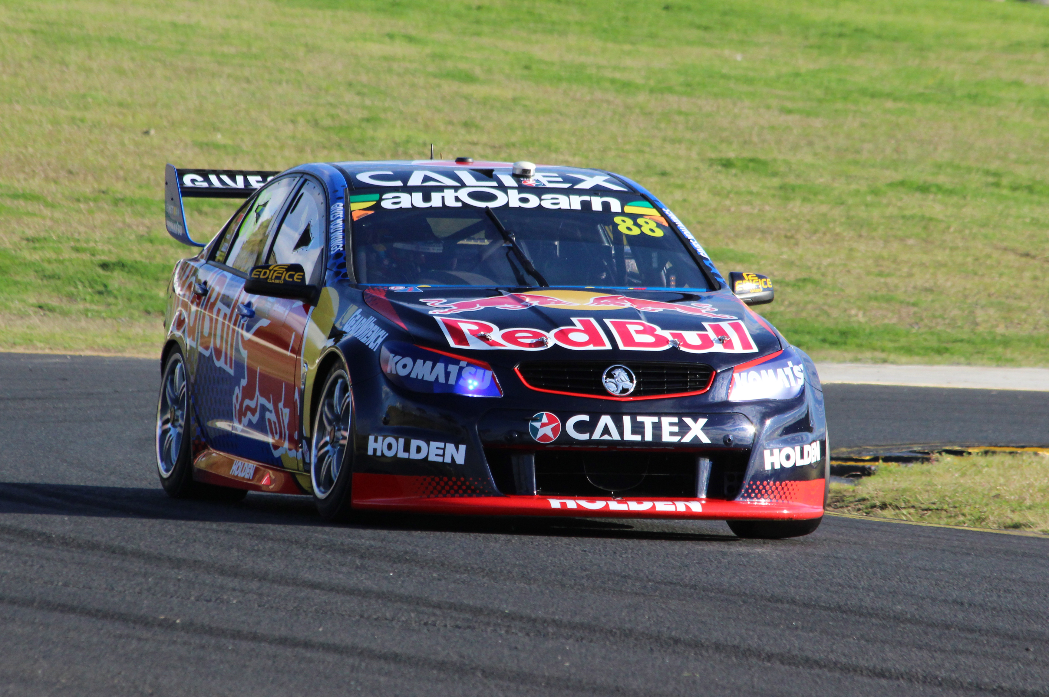 Jamie Whincup (Triple Eight Holden VF Commodore) during Practice 2 at the 2016 Red Rooster Sydney SuperSprint.